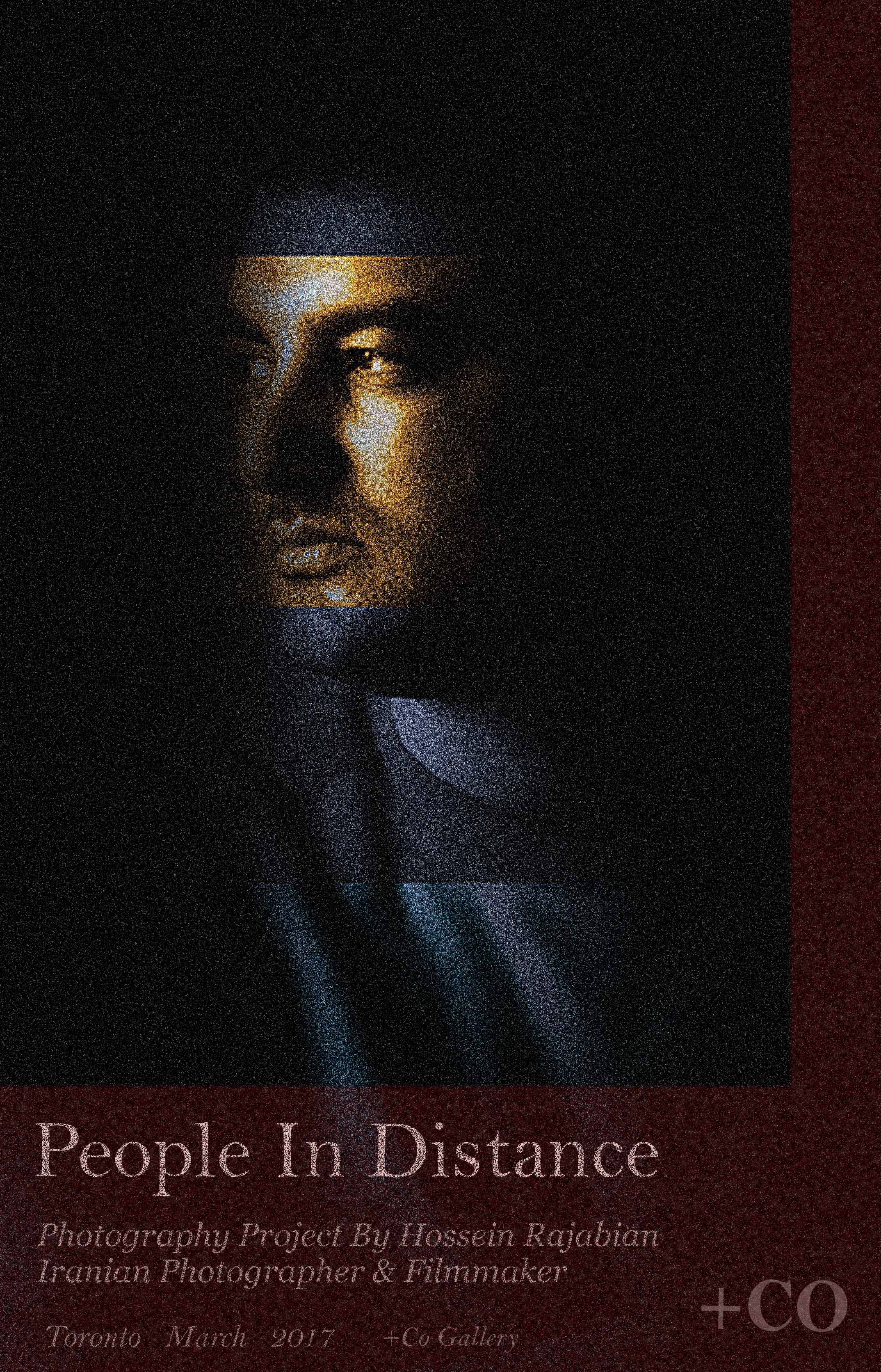 hossein rajabian project حسین رجبیان عکاسی پروژه